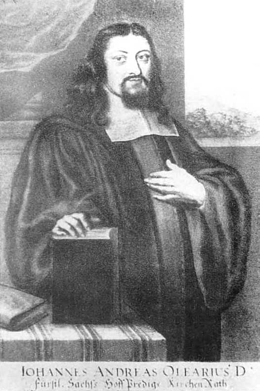 Johannes Andreas Olearius (1639-1684) Protestant theologian from Germany